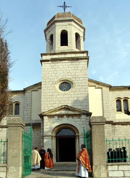 Orthodox church in Drniš, Croatia.